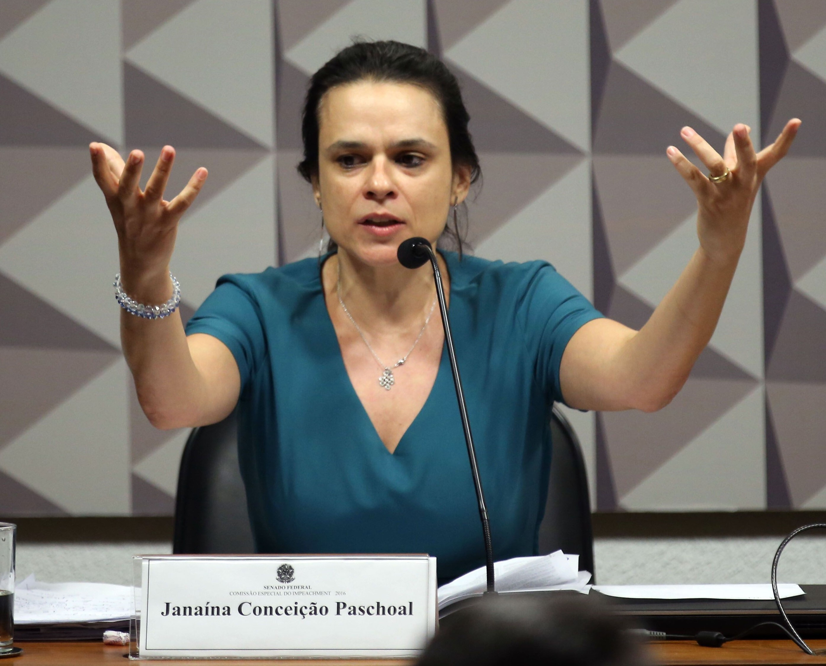 Janaina Paschoal, one of authors of Dilma Rousseff impeachment request and prosecuting attorney in Senate Committee - 28 April 2016